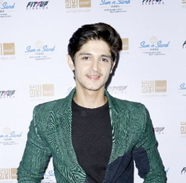 Rohan Mehra in 2019